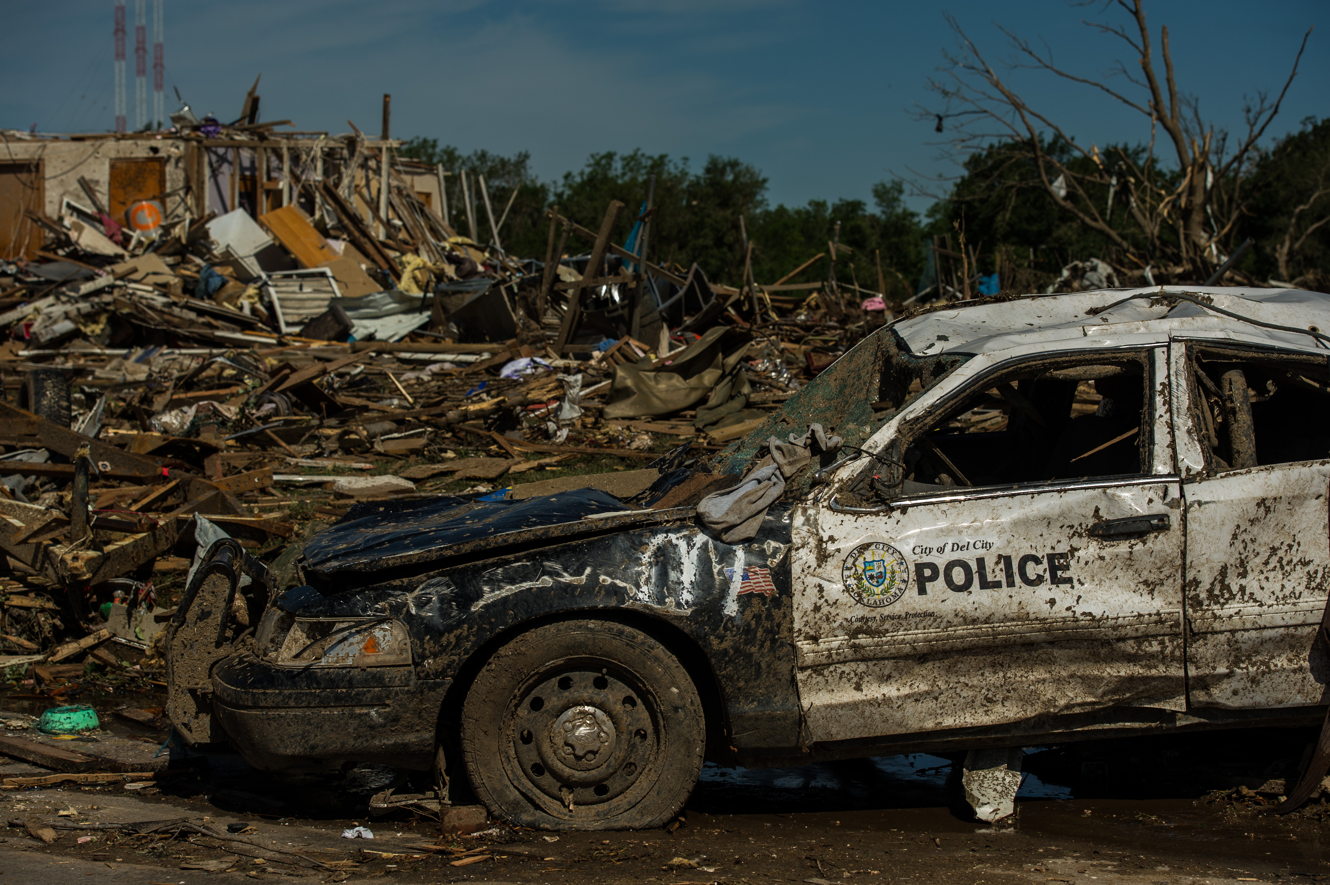 Debris is shown in Moore, Okla., May 22, 2013. Oklahoma National Guardsmen were activated to help in the rescue and relief efforts in the wake of a tornado that struck the town May 20, 2013.